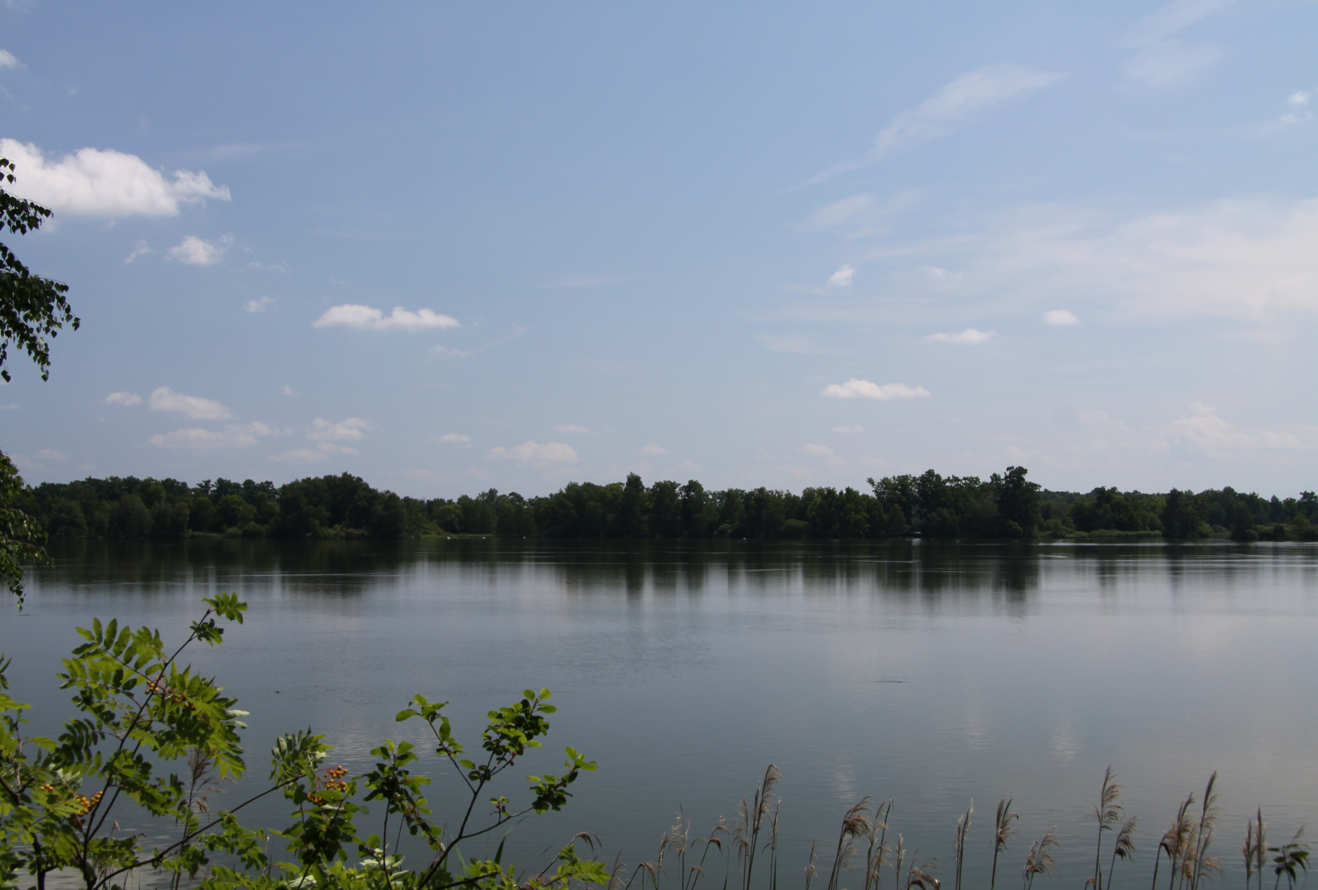 Pražský pond near Frahelž village in Jindřichův Hradec District inside CHKO Třeboňsko, Czech Republic